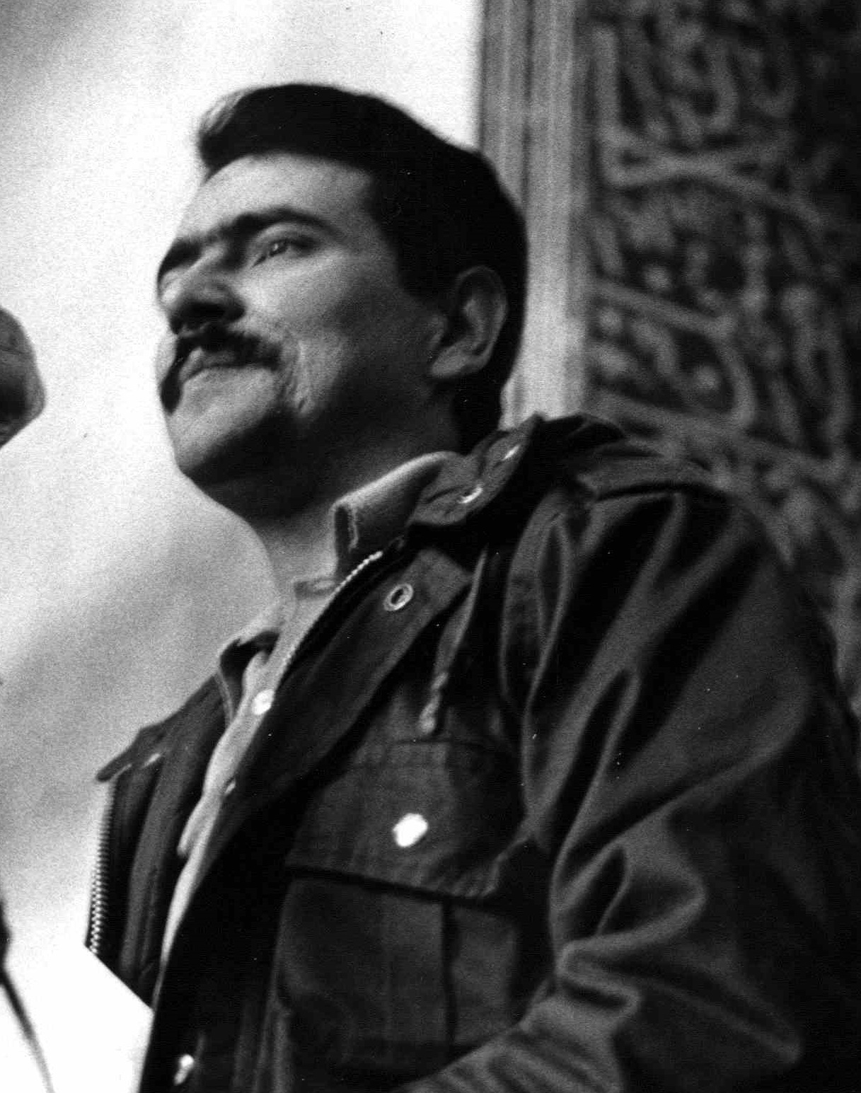 Masoud Rajavi